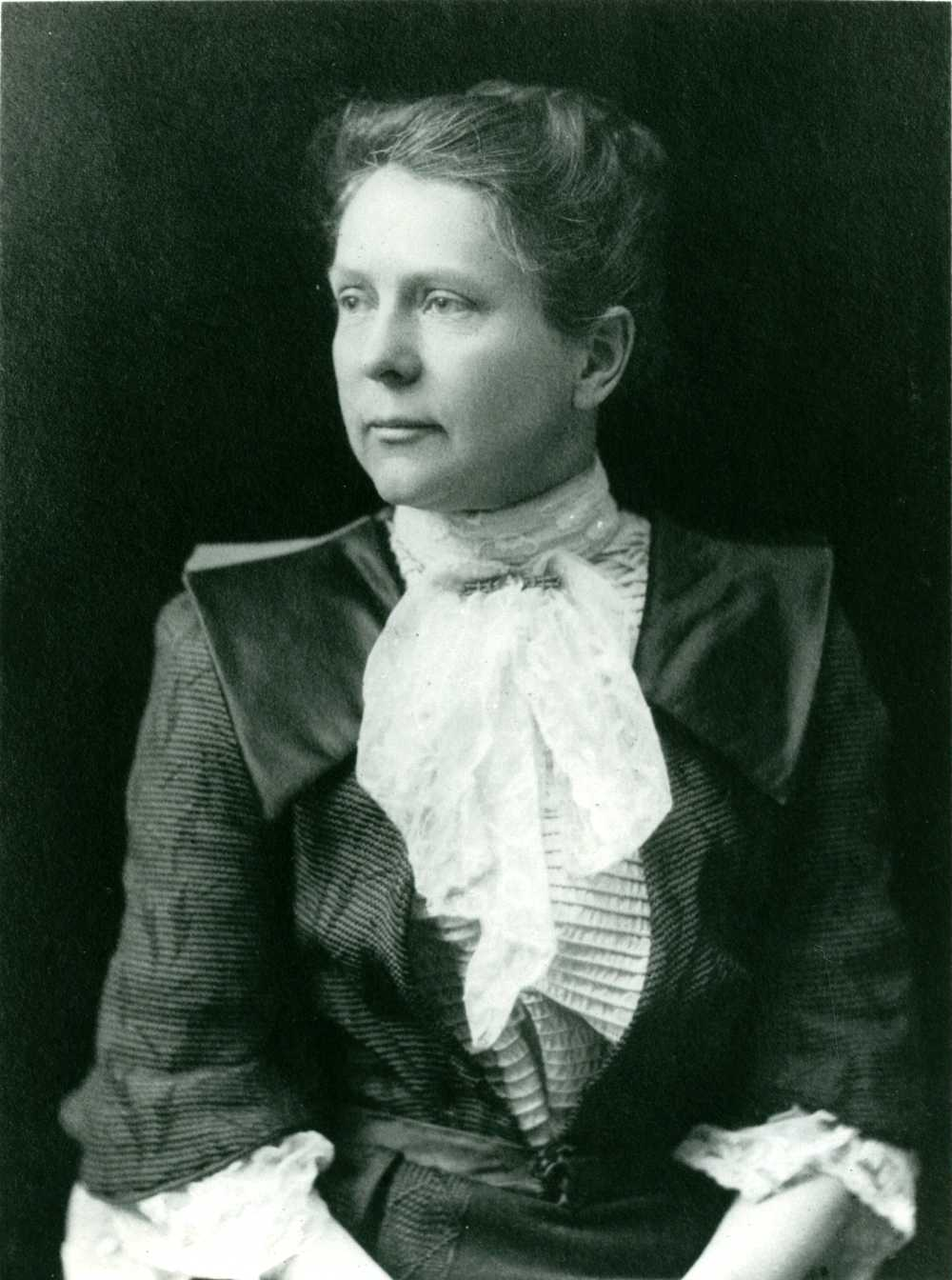 no description